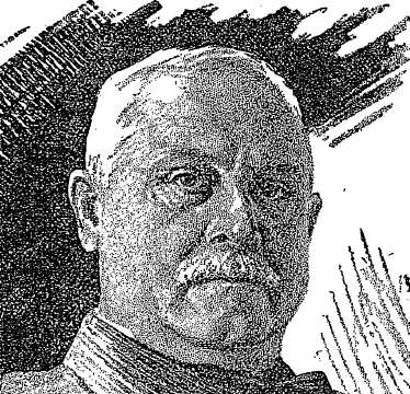 Ardolph_Loges_Kline, Mayor of New York City from September to December 1913 (cropped portion of a black and white newspaper engraving taken from photograph)